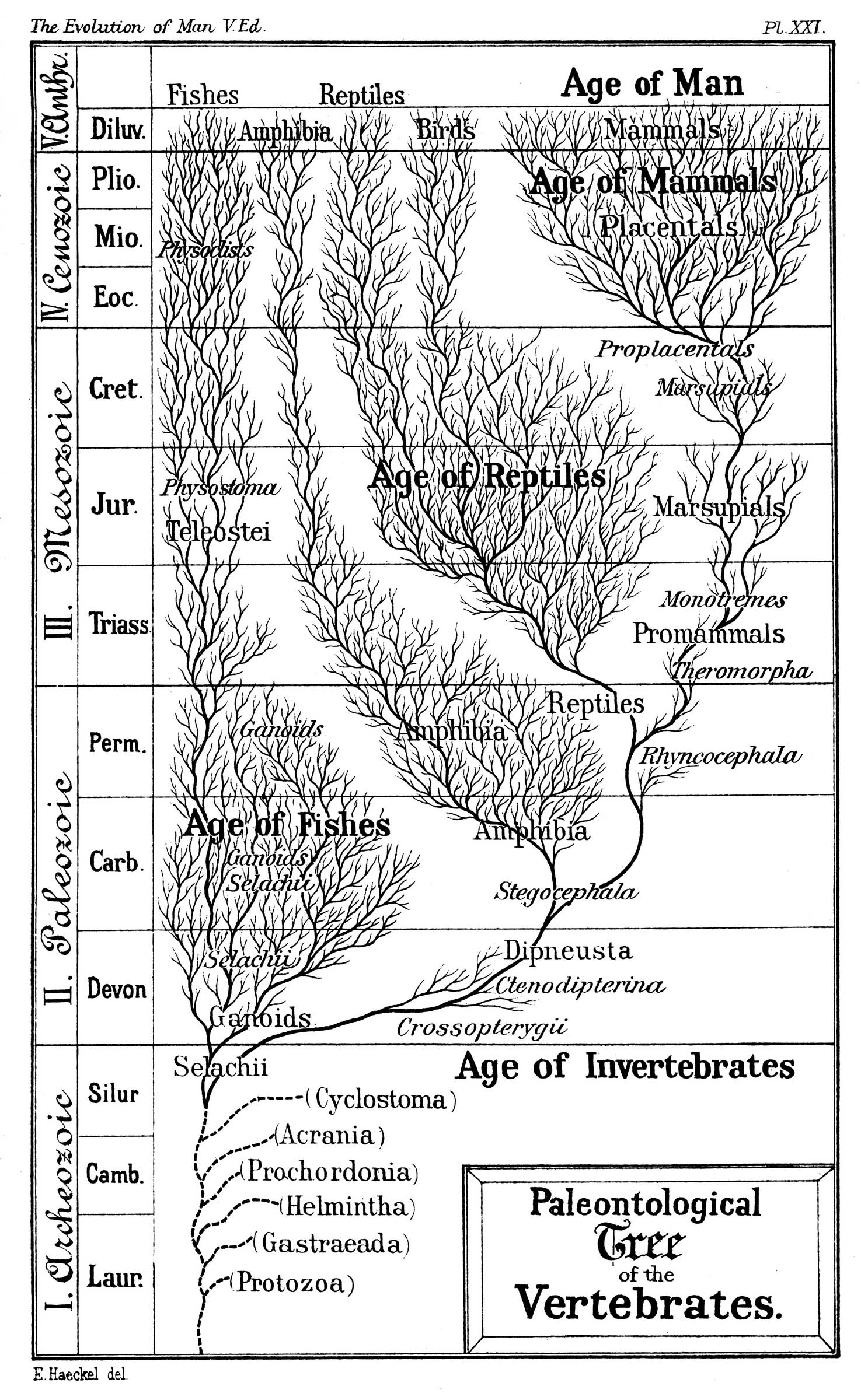 Stock #7465800 (purchased and donated by Kosi Gramatikoff User:Kosigrim) Haeckel's Paleontological Tree of Vertebrates (c. 1879).The evolutionary history of species has been described as a "tree", with many branches arising from a single trunk. While Haeckel's tree is somewhat outdated, it illustrates clearly the principles that more complex modern reconstructions can obscure.